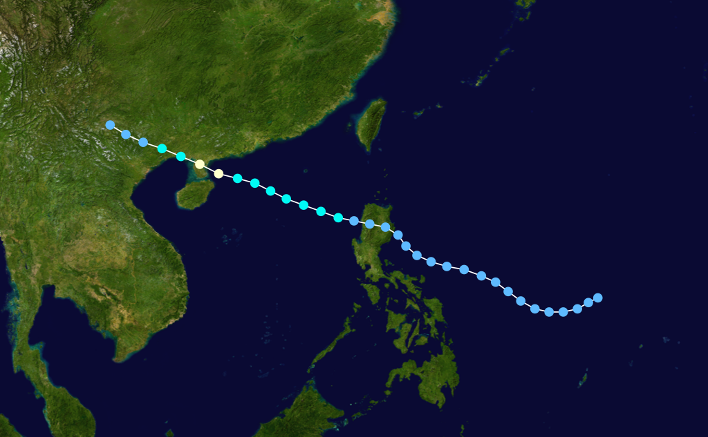 Typhoon Gary 1992 track. Uses the color scheme from the Saffir-Simpson Hurricane Scale.